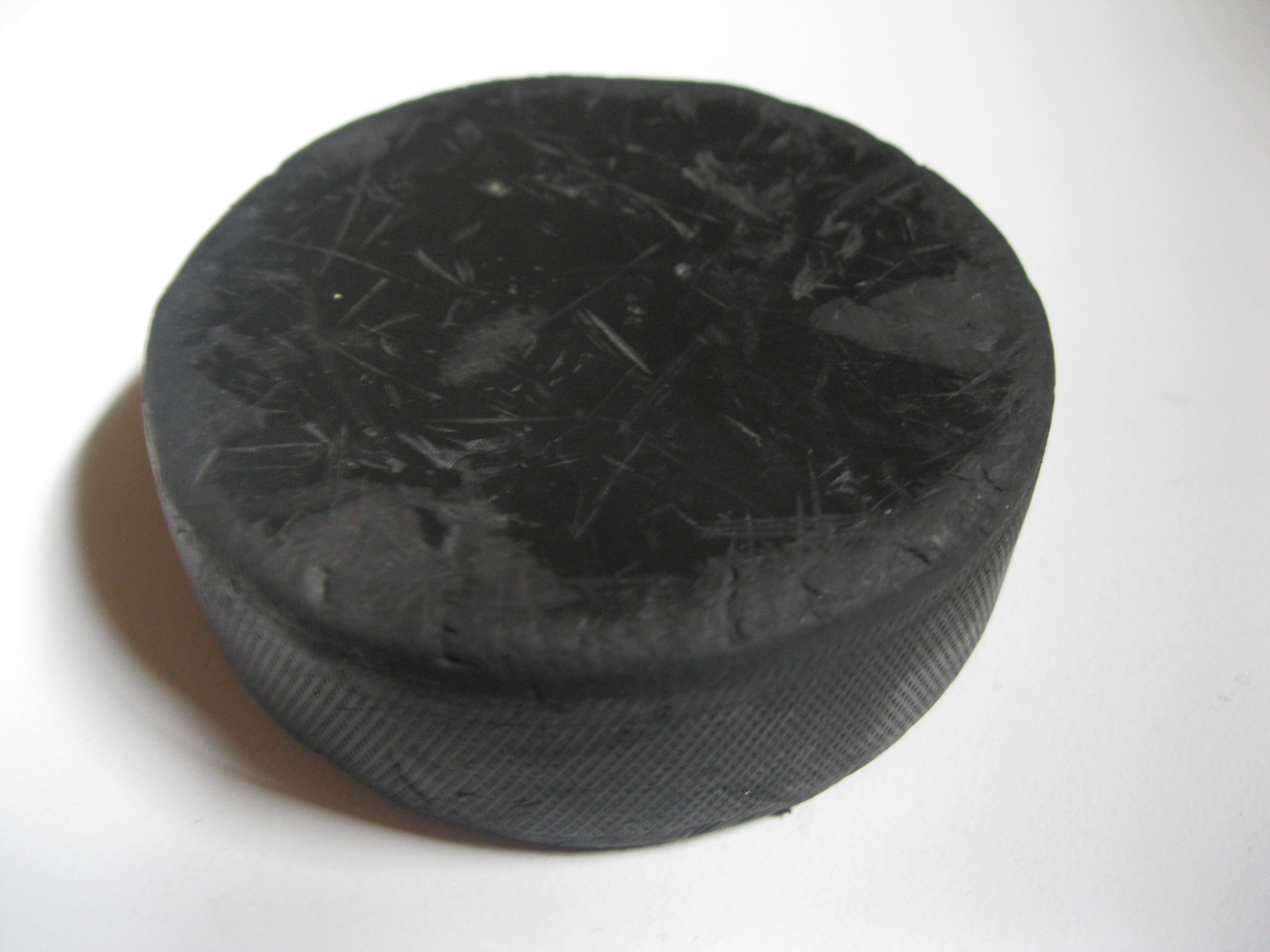 Ice hockey puck